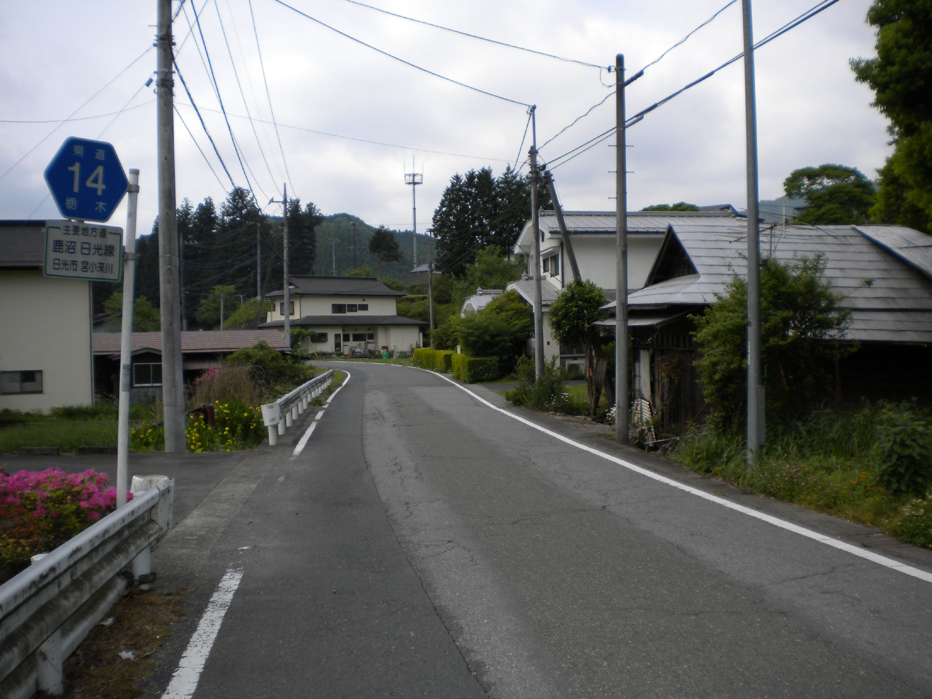 The Tochigi Prefectural Road Route 14 in Miyaokorogawa, Nikko City